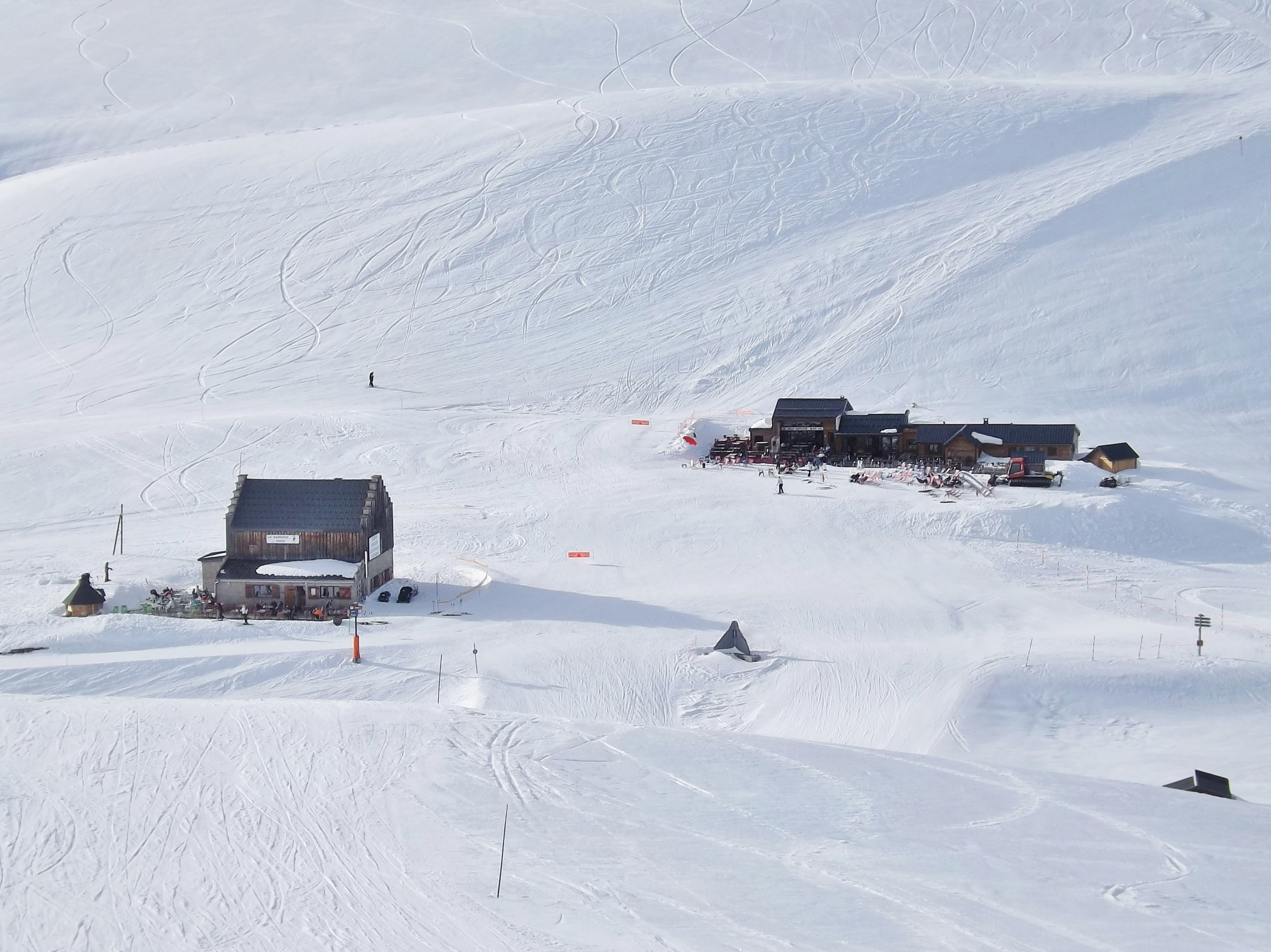 Sigth in winter, from a ski slope of Saint-François-Longchamp ski resort, of the col de la Madeleine pass (2,000 meters high), in Savoie, France.